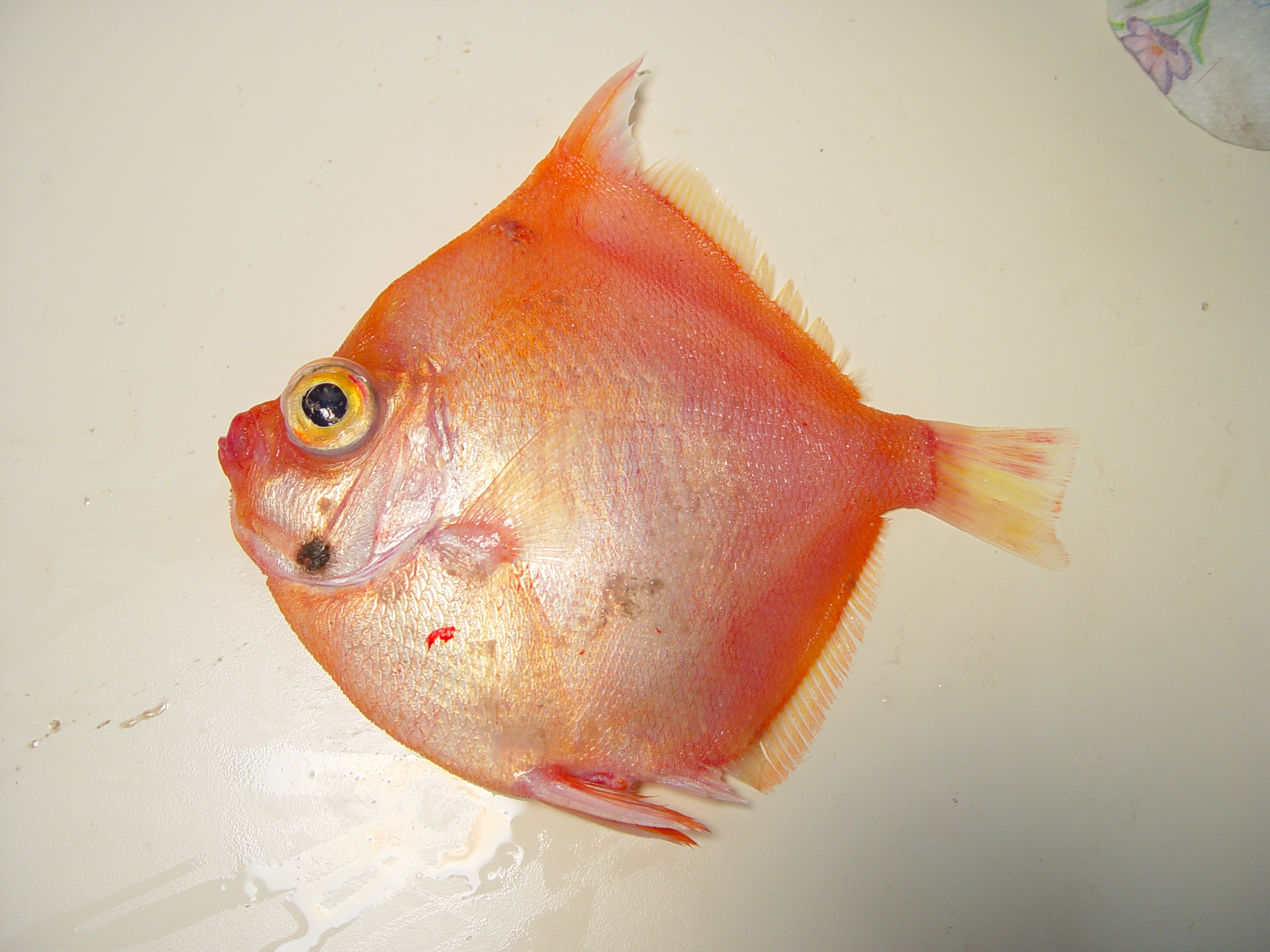 Adult boarfish ( Antigonia capros )